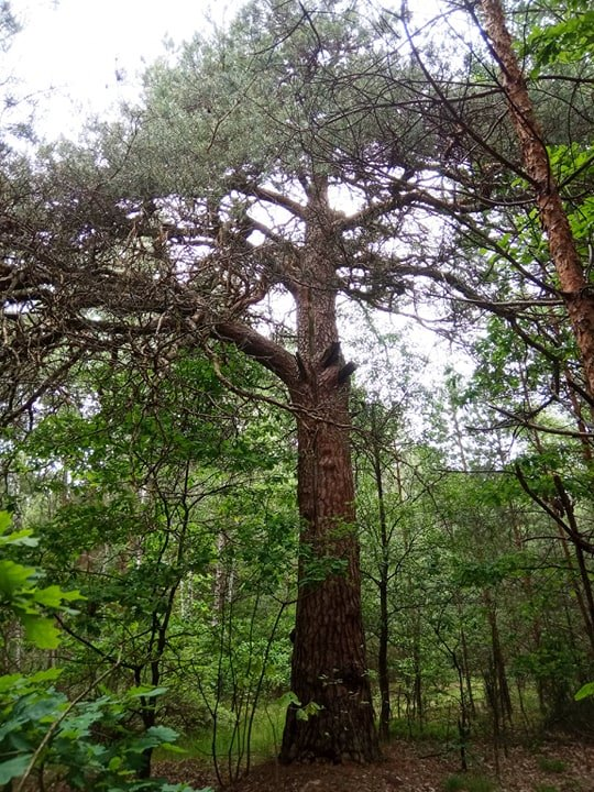 Leszczyny, a natural monument from around 1800.